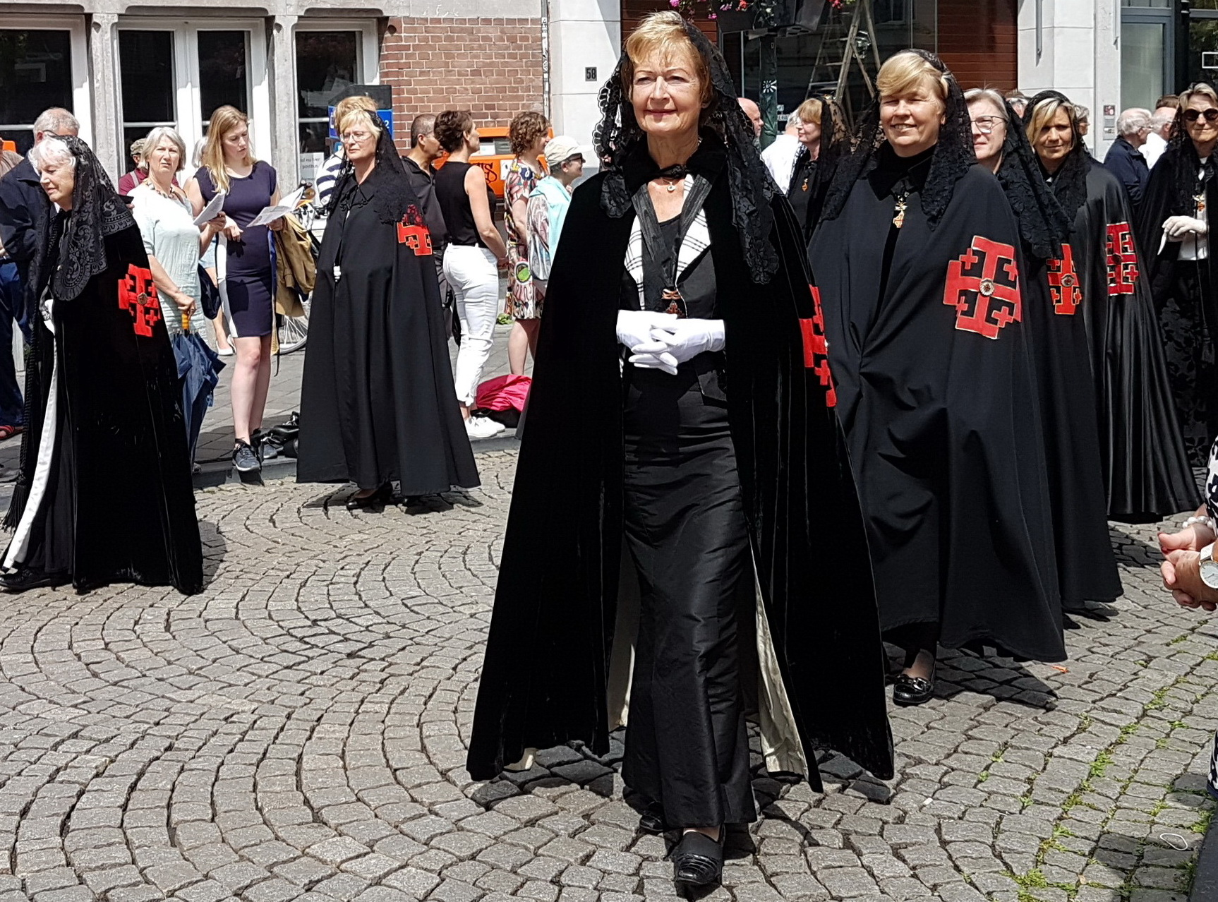 Participants in a historic religious procession during the 2018 Heiligdomsvaart (Relics Pilgrimage) in Maastricht, Netherlands. The history of this seven-yearly catholic pilgrimage goes back to the Middle Ages. The first 'modern' version took place in 1874. On both Sundays of the 10-day festival, a procession is held in which the main relics and other devotional objects are exhibited. This photo was taken in Stationsstraat during the (first) procession on Sunday 27 May 2018. This particular group consists of members of the Roman Catholic Order of the Holy Sepulchre.